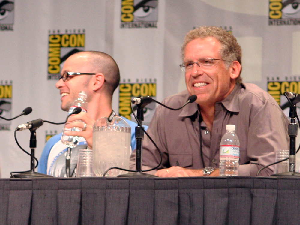 Show runners Damon Lindelof and Carlton Cuse of the television show Lost at Comic-Con International in San Diego, California, United States